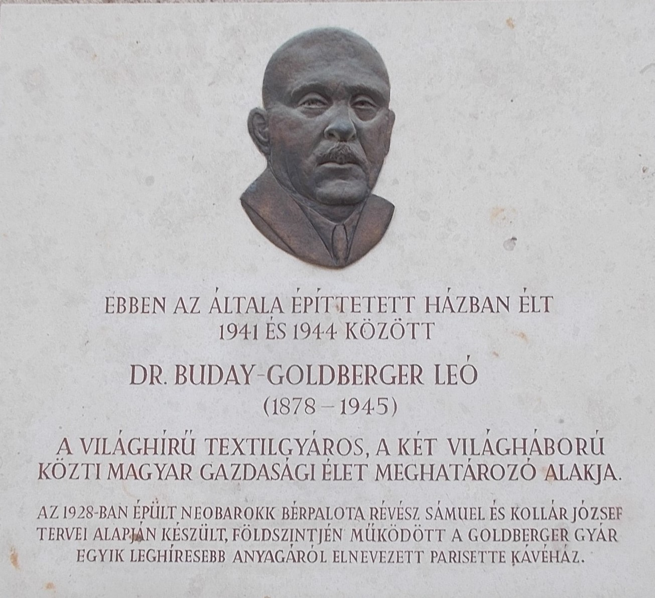 Plaque/relief of Leó Goldberge by András Kontur (2017 bronze relief, marble plaque) on a Neo-Baroque office building (built in 1928) - 4 Vörösmarty tér, Lipótváros neighborhood, District V of Budapest